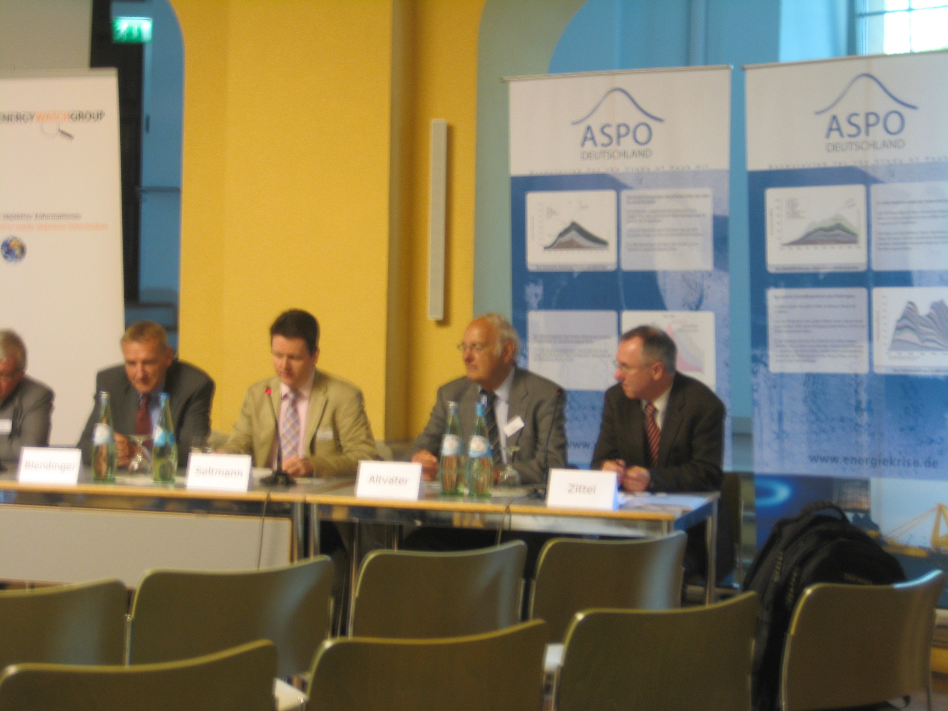 Conferenz of ASPO in May 2005 in Berlin